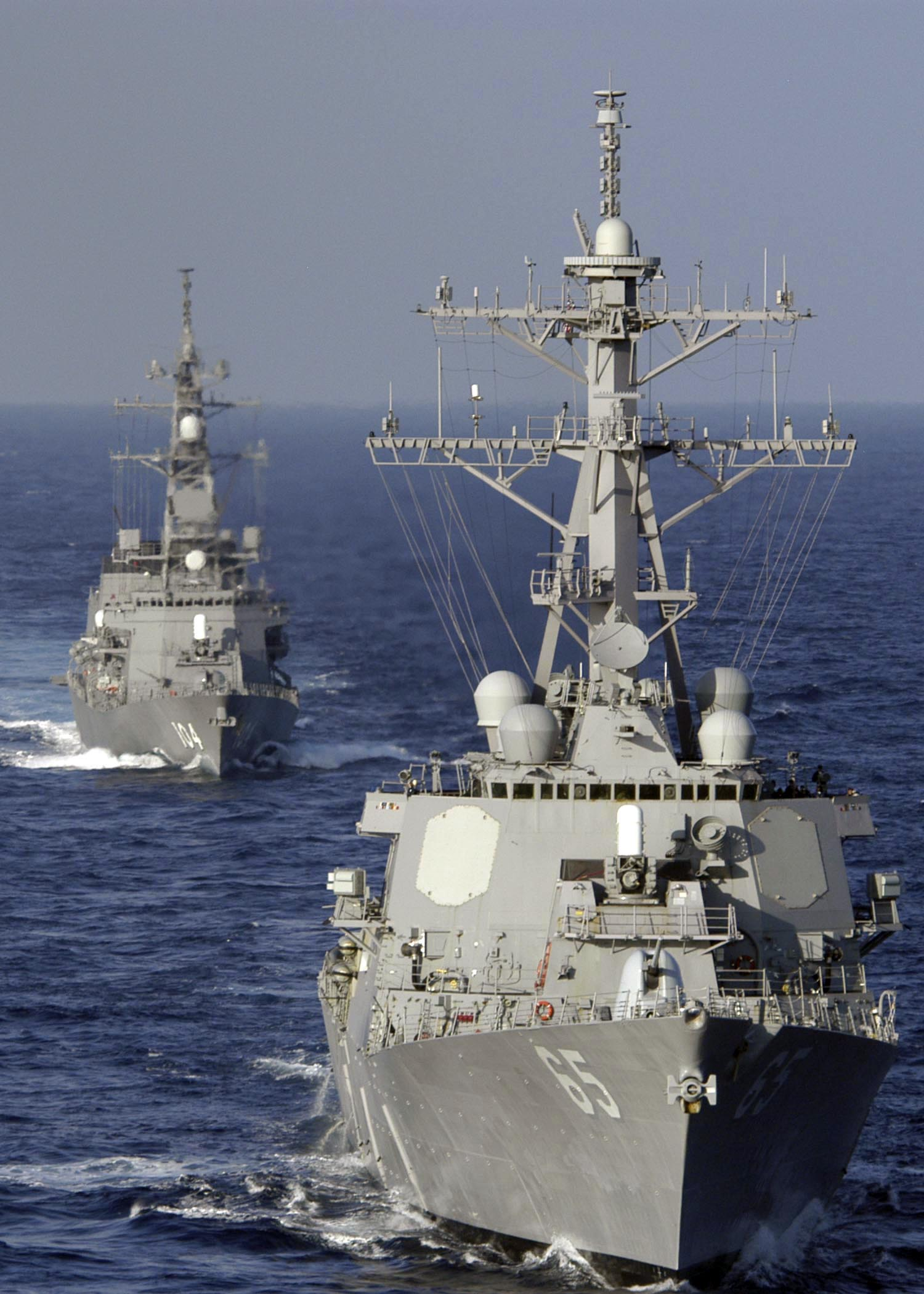 Pacific Ocean (Dec. 18, 2004) – The guided missile destroyer USS Benfold (DDG 65) and the Japanese Self-Defense Force (JSDF) destroyer JDS Kirisame (DD 104) maneuver aft of the Nimitz-class aircraft carrier USS Abraham Lincoln (CVN 72) during a joint exercise involving several U.S. Navy and Japanese ships. Lincoln and Carrier Air Wing Two (CVW-2) are currently deployed to the Western Pacific Ocean on a scheduled deployment. Carrier Strike Group Nine (CSG-9) is the first to be used in the surge role in support of the Chief of Naval Operations Fleet Response Plan. U.S. Navy photo by Photographer's Mate Airman Nicholas B. Morton (RELEASED)